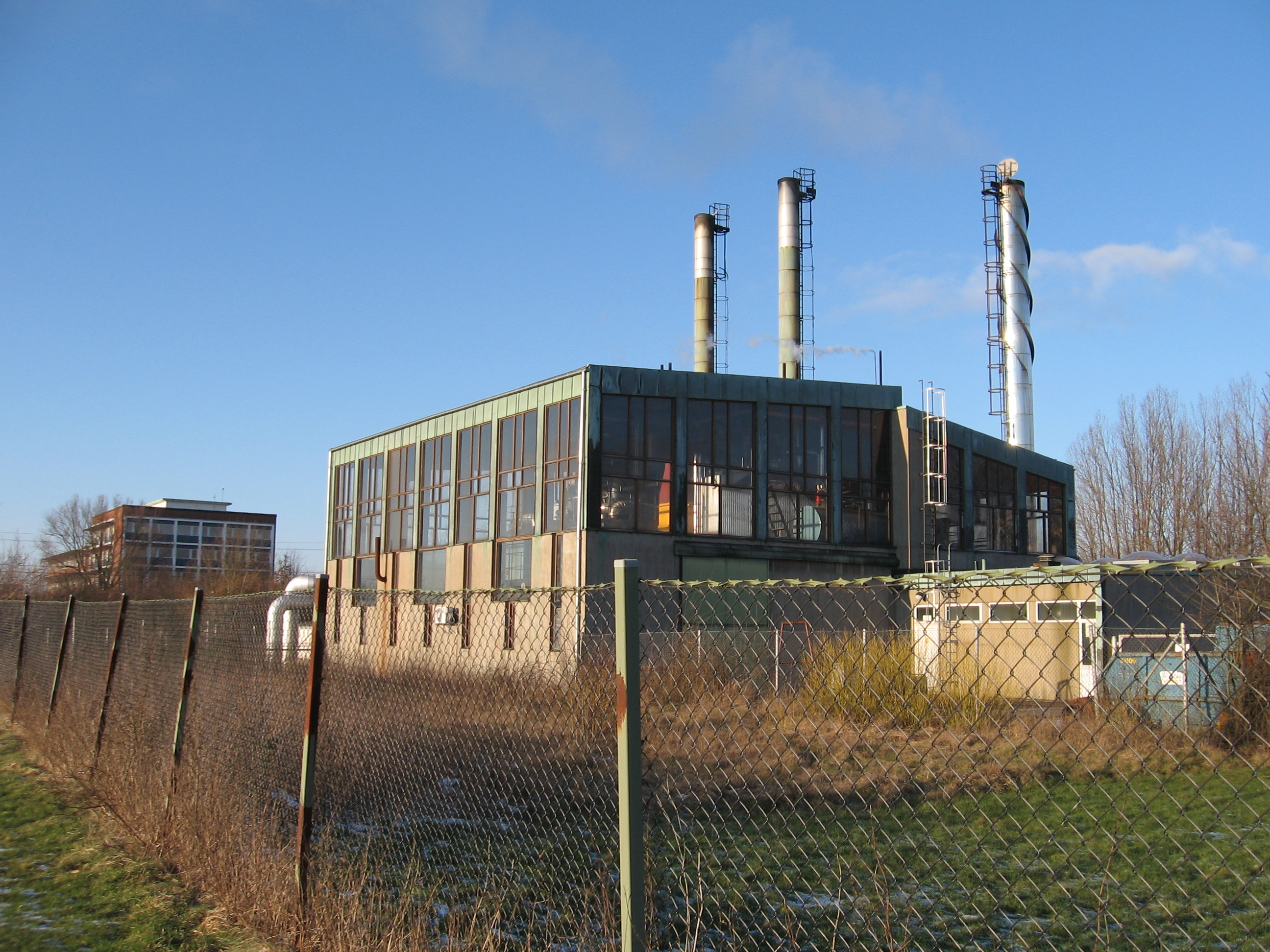 Heat-only boiler station in Lund.